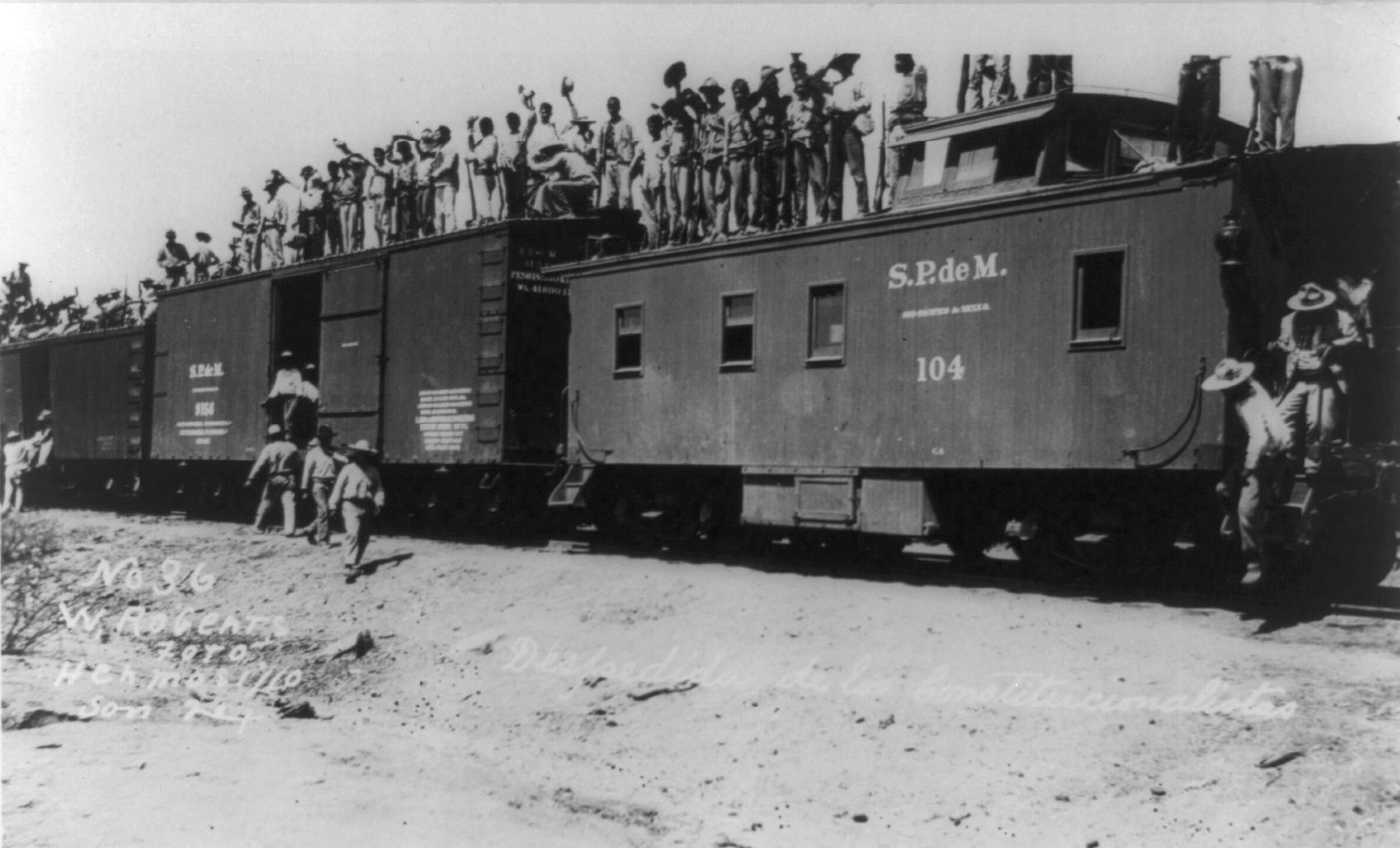 Title: Soldiers standing on top of railroad cars, of S.P.deM. train, during the Mexican revolution. On the photo is written in Spanish "despedido de los constitucionalistas" or "fired from the constitutionalists" in English Abstract/medium: 1 photographic print.